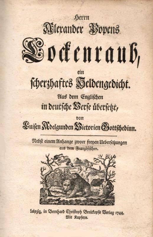 Der Lockenraub, the 1744 German translation of Alexander Pope’s The Rape of the Lock by Luise Gottsched